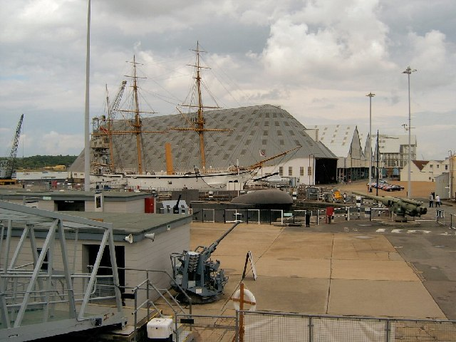 Chatham Historic Dockyard.